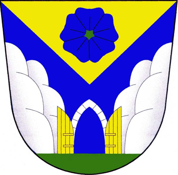 Adršpach CoA CZ